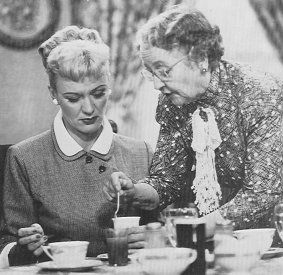 Eve Arden and Jane Morgan from the Our Miss Brooks television show